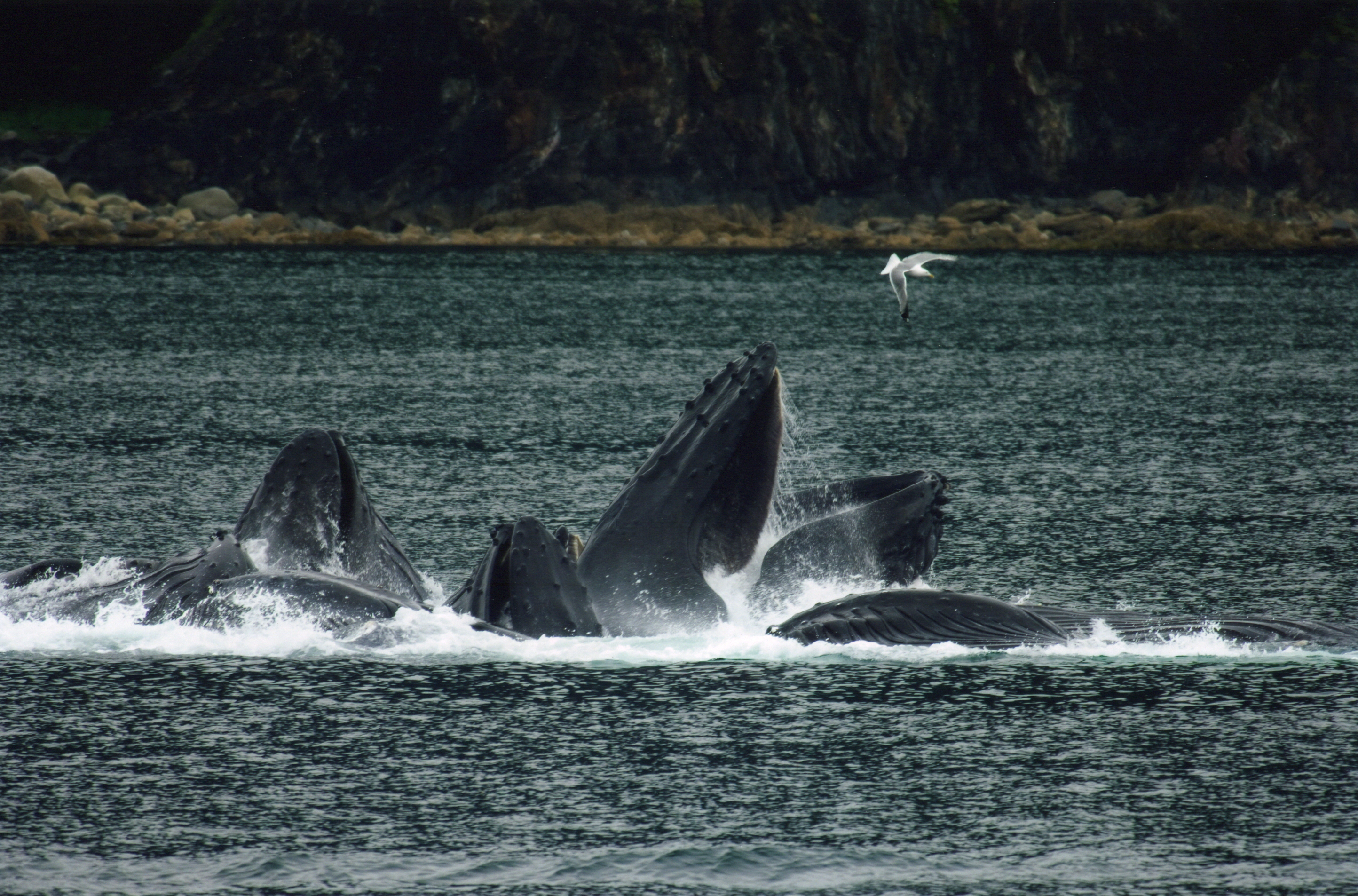 Humpback whales in North Pass between Lincoln Island and Shelter Island in the Lynn Canal north of Juneau, Alaska. This is a group of 15 whales that were bubble net fishing on 18 August 2007.